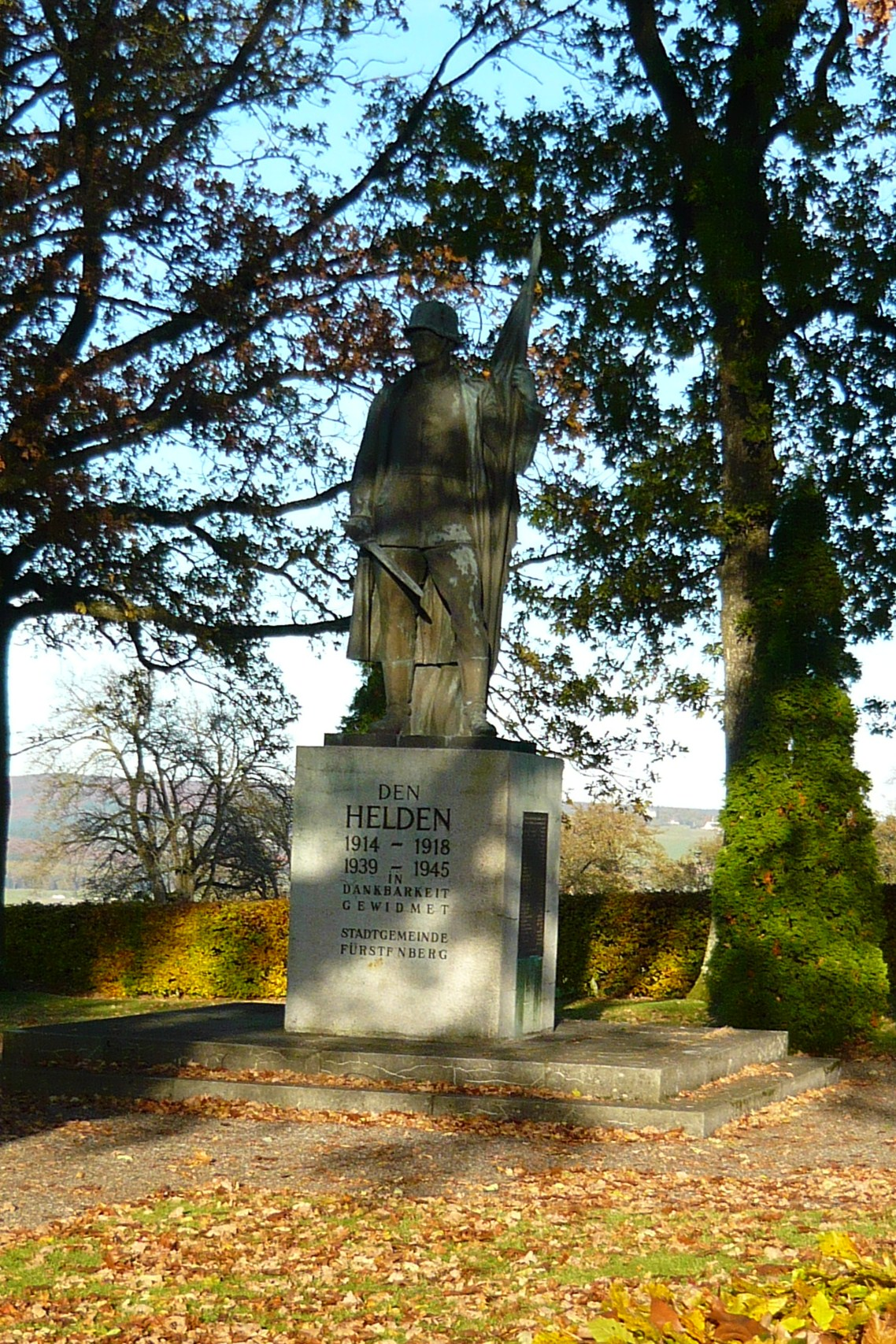 The memorial of war in Fürstenberg